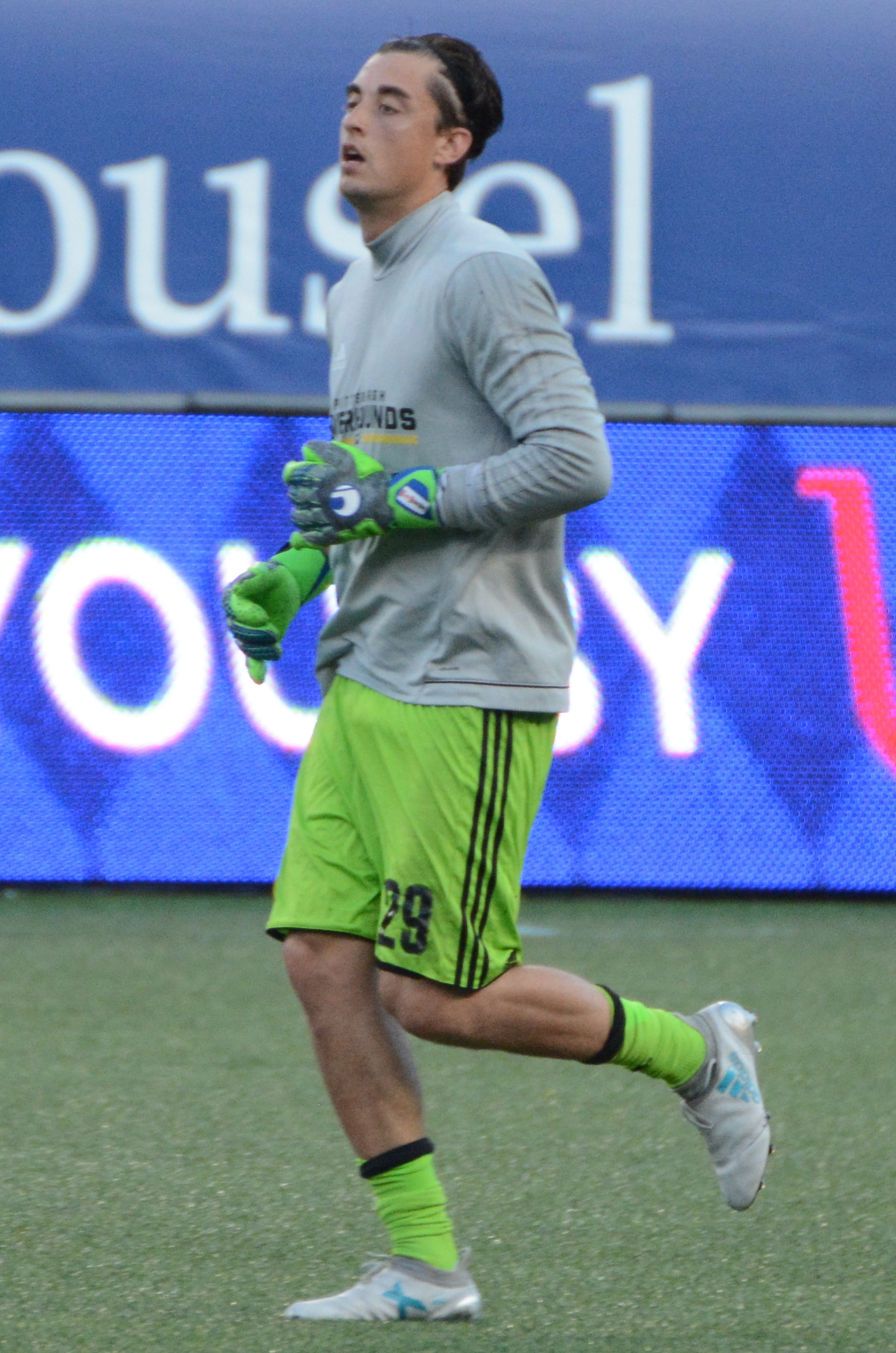 Taken during a USL regular season match between FC Cincinnati and Pittsburgh Riverhounds at Nippert Stadium in Cincinnati, USA on September 1, 2018.